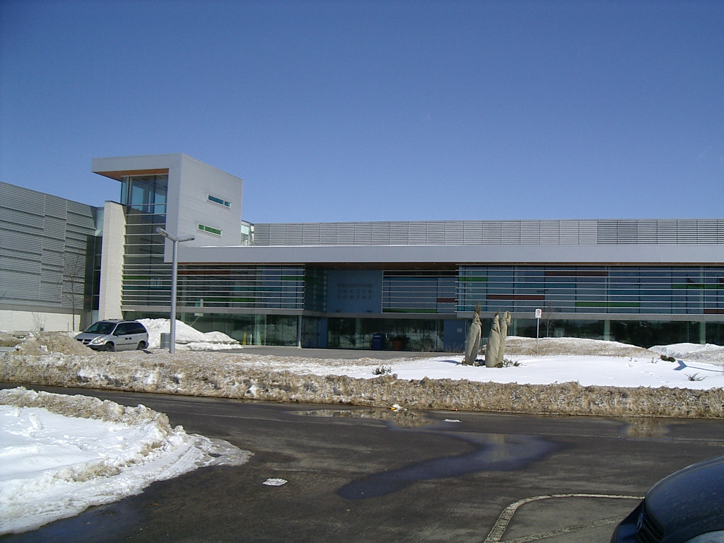 Brampton Soccer Centre